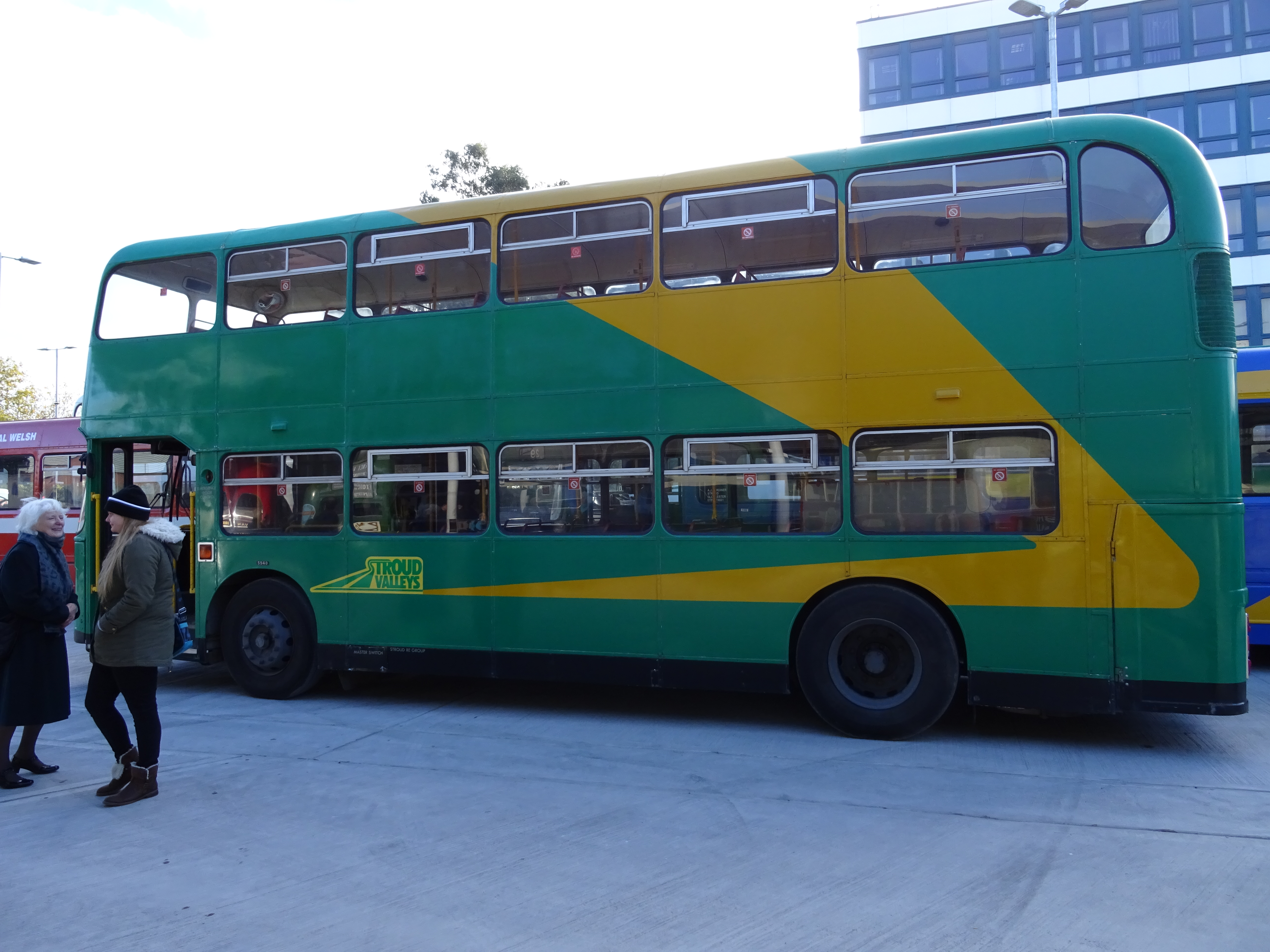 The side of a Stroud Valleys bus on Gloucester Transport Hub open day - EWS 748W